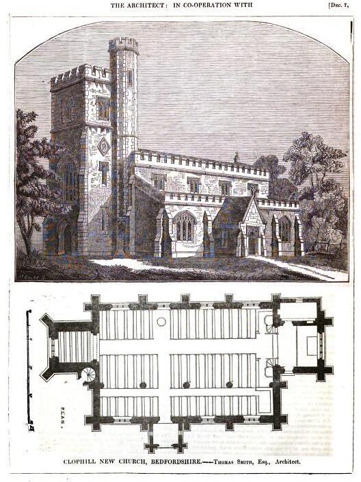 Engraving and architectural drawing of the New St Marys Church in Clophill, Bedfordshire, England